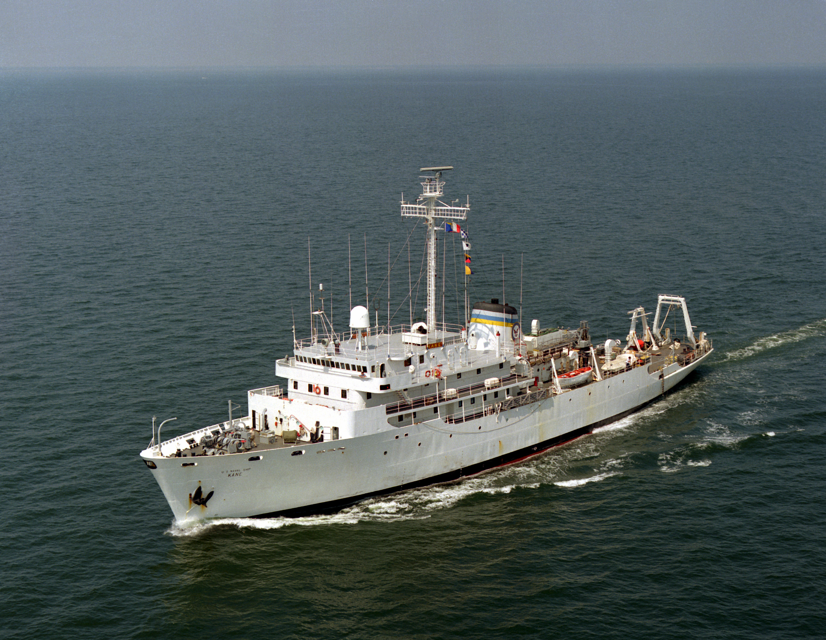 The U.S. Military Sealift Command surveying ship USNS Kane (T-AGS-27) underway in 1984.